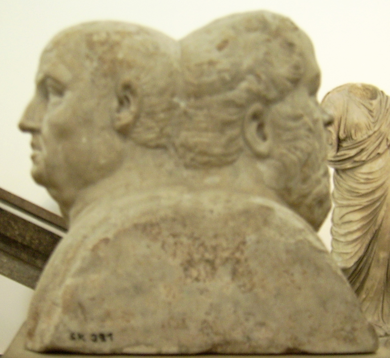 Berlin, Pergamonmuseum. An Ancient Roman double-face herm of philosophers Lucius Annaeus Seneca and Socrates.